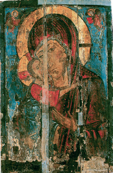 Our Lady of Kashin (Strastnaya)